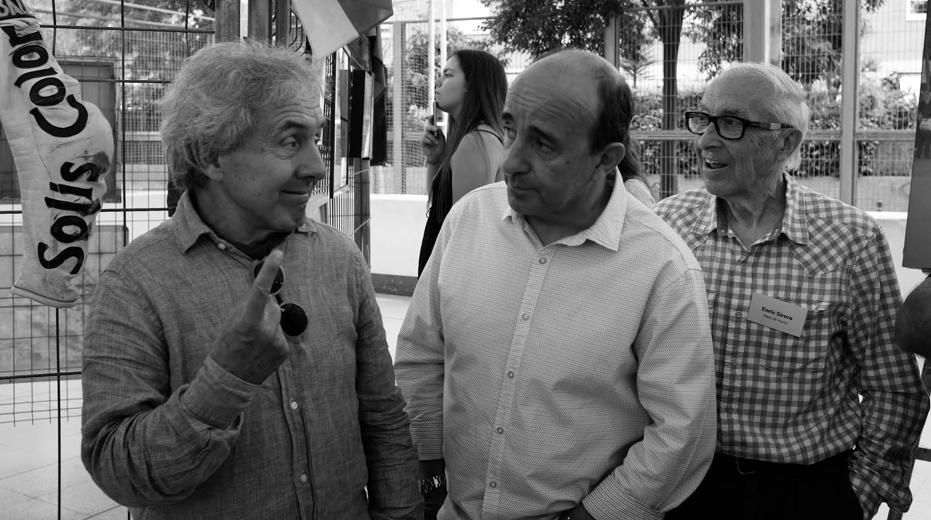 From left to right: Min Grau, Luis Miguel Reyes and Enric Sirera, during the II Llotja del Vehicle Clàssic de Mollet (june 2015)